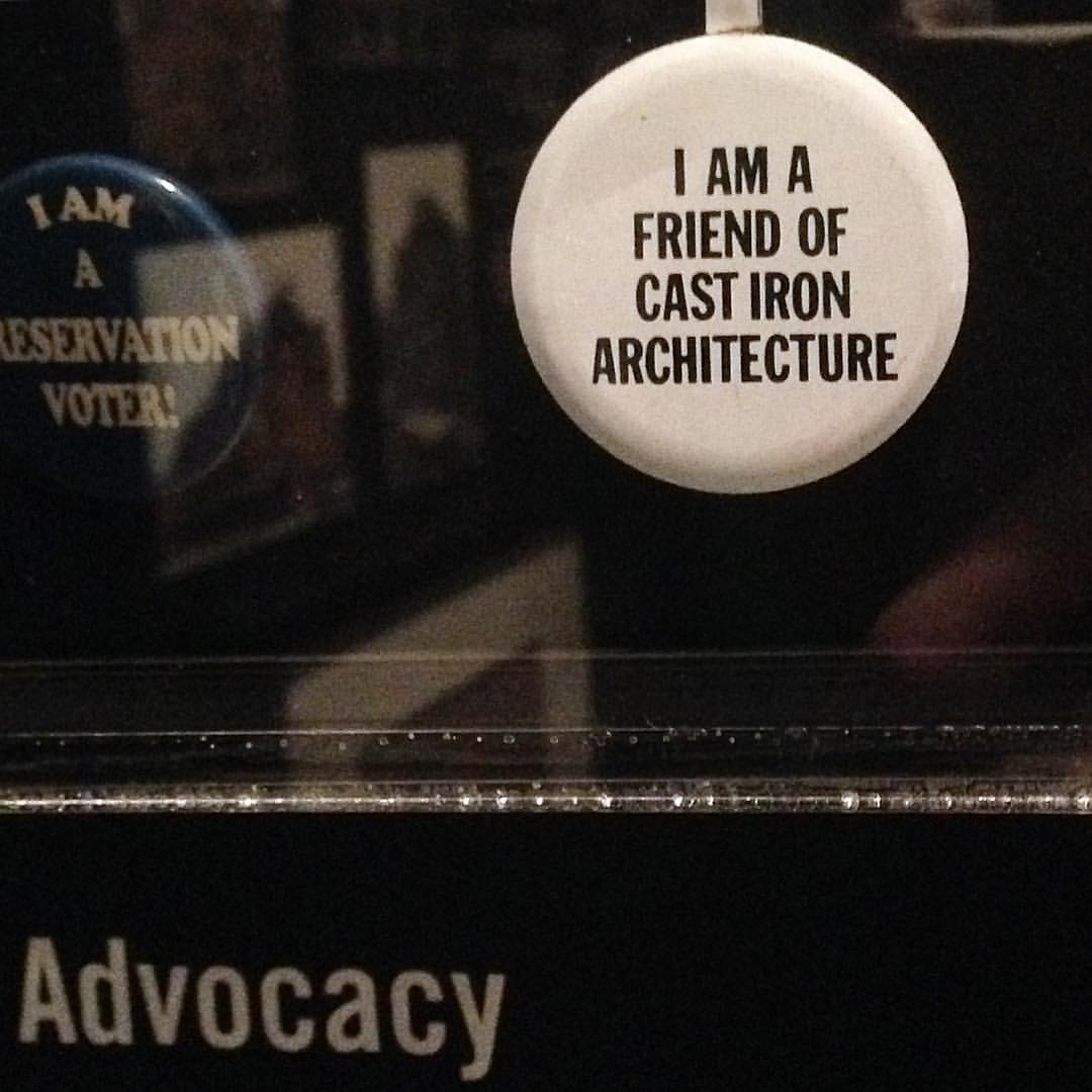 Museum display with button that reads "I am a friend of cast iron architecture."